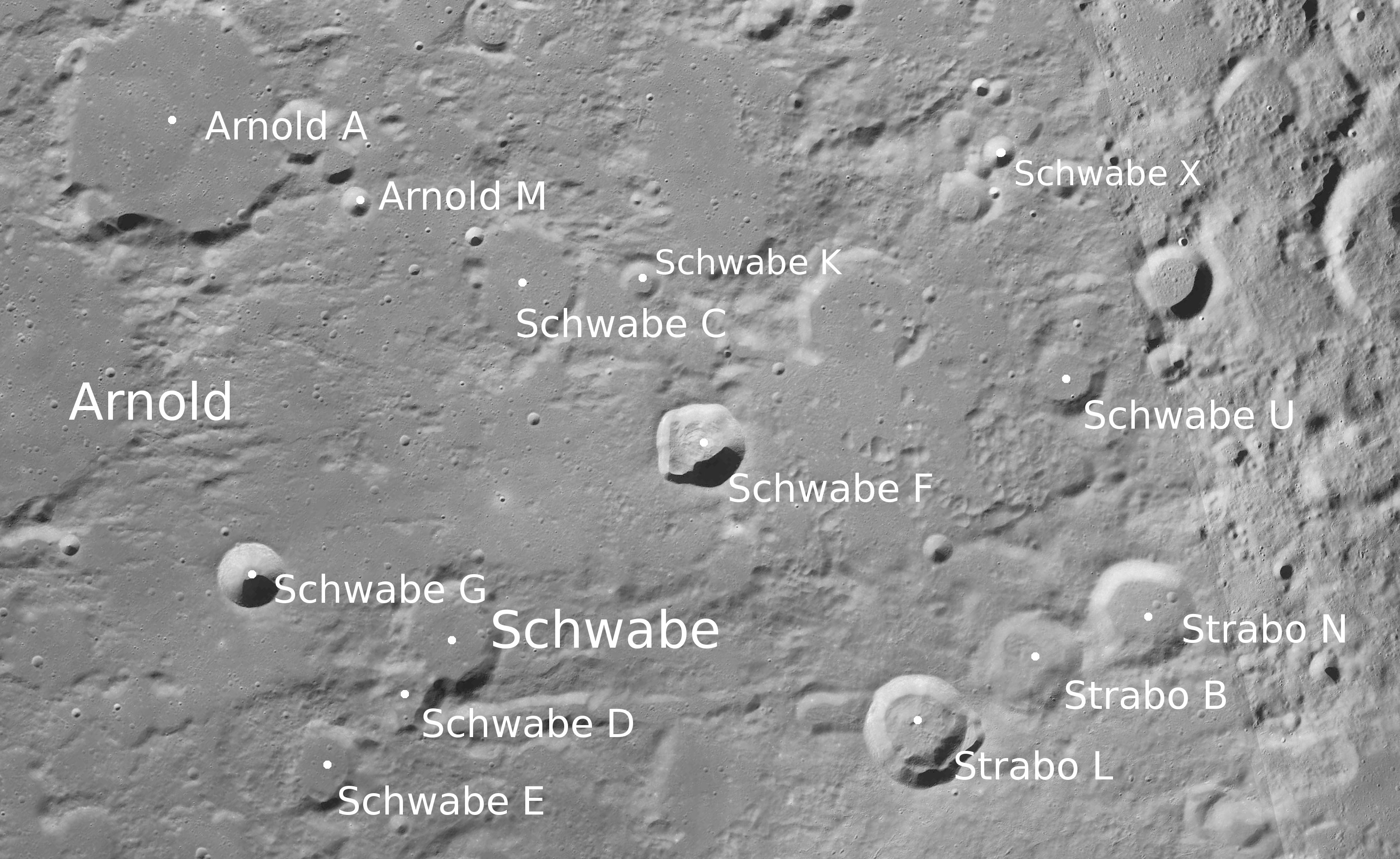 Moon crater Schwabe with satellite features (north at top; detail of LRO - WAC north pole mosaic)